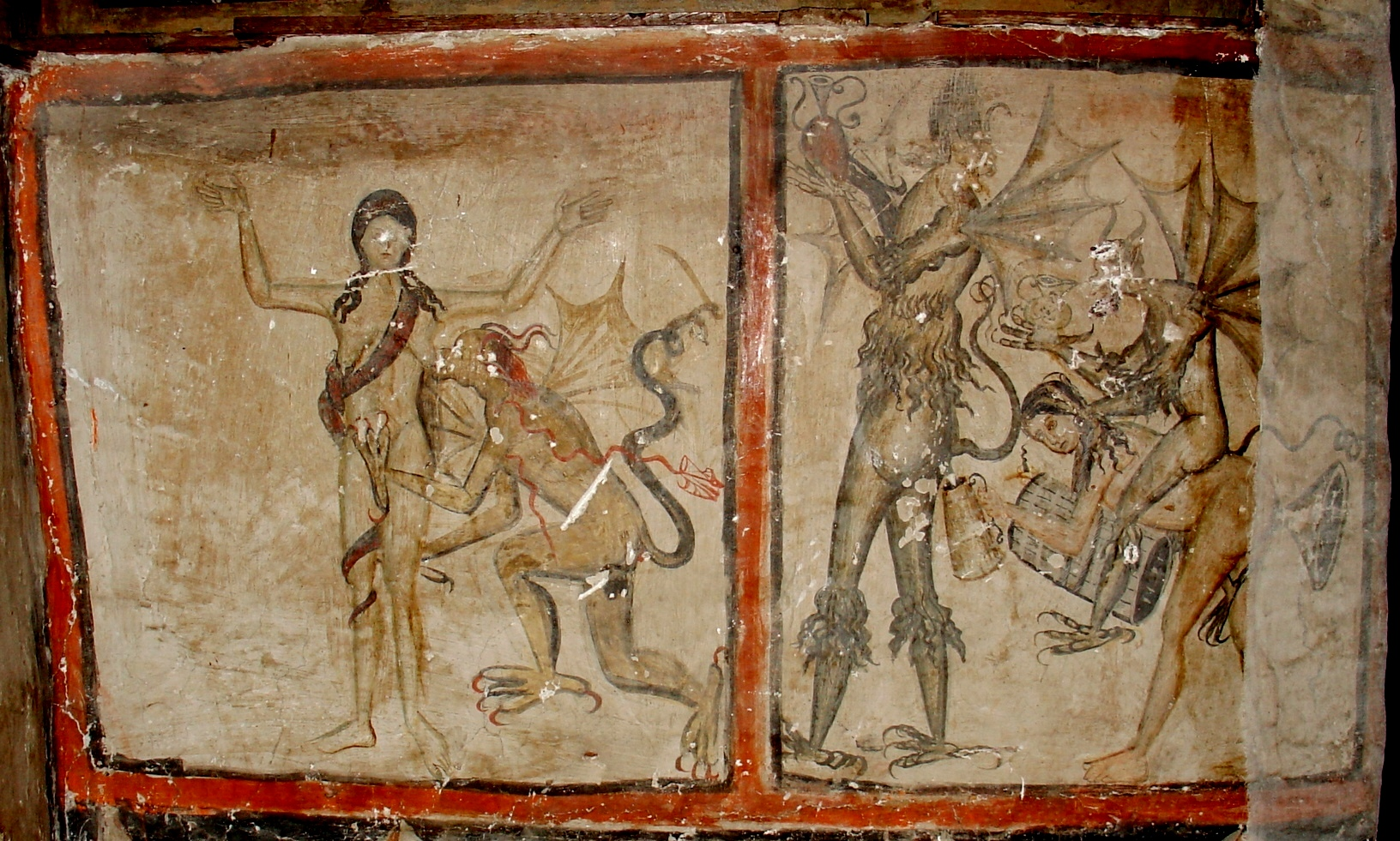 Demons torturing a "Whore" (H Porni): Painter David Selinitziotis work, Orthodox church of Agios Ioannis Prodromos, at Kastoria, Greece (1727).